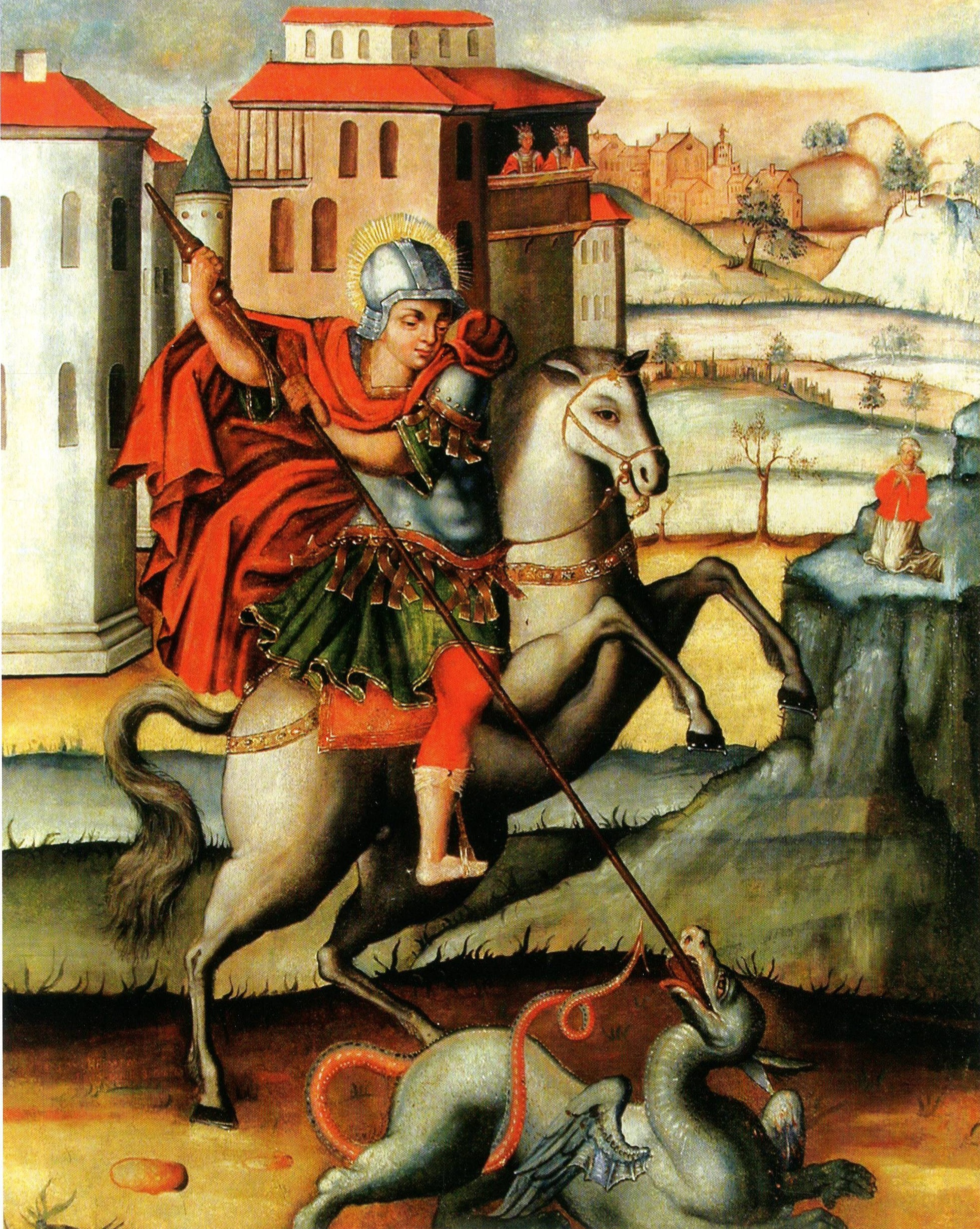 NIKODEM PROCHITSKY. ST. GEORGE'S FIGHT WITH DRAGON. 1751. Canvas, oil. 120x100. St.Yuri's Church, Zhirovichi monastery, Slonim district, Grodna region. Restoration - V. Nikitin.